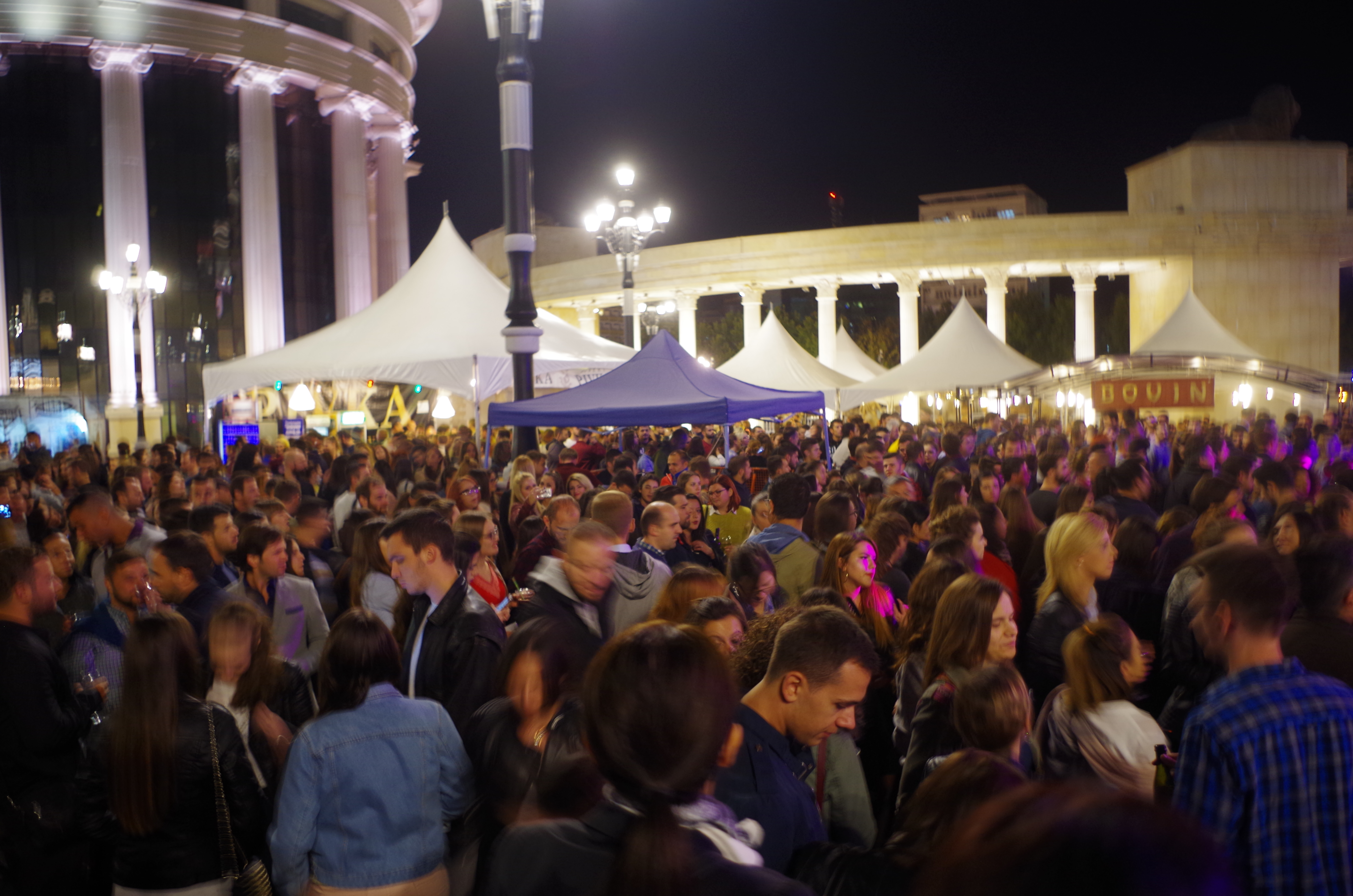 Vinoskop, Wine Festival in Skopje, 2017